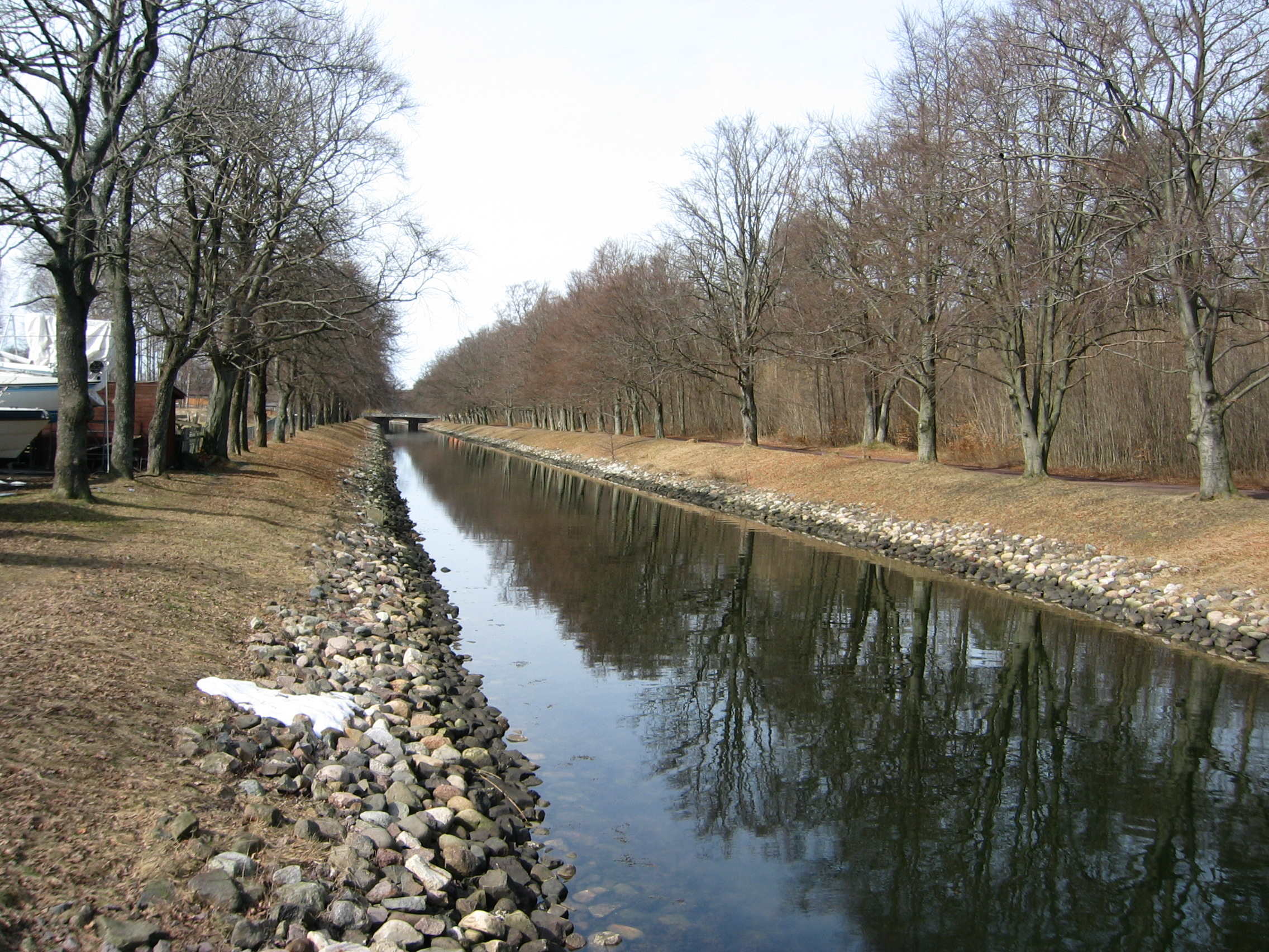 Horten city channel, Norway